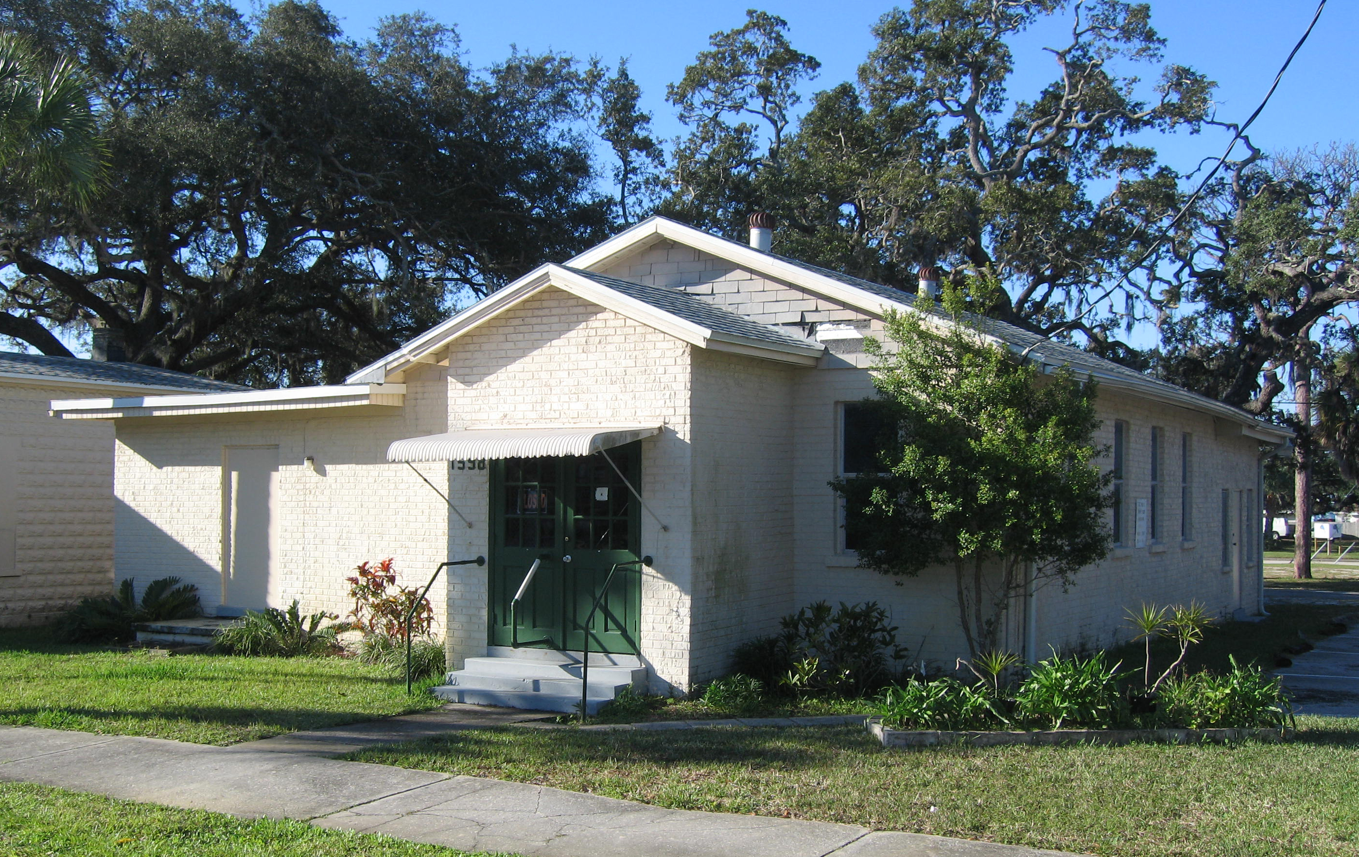 Advant Christian Church (1914), 1598 Highland Avenue, Eau Gallie, Florida.